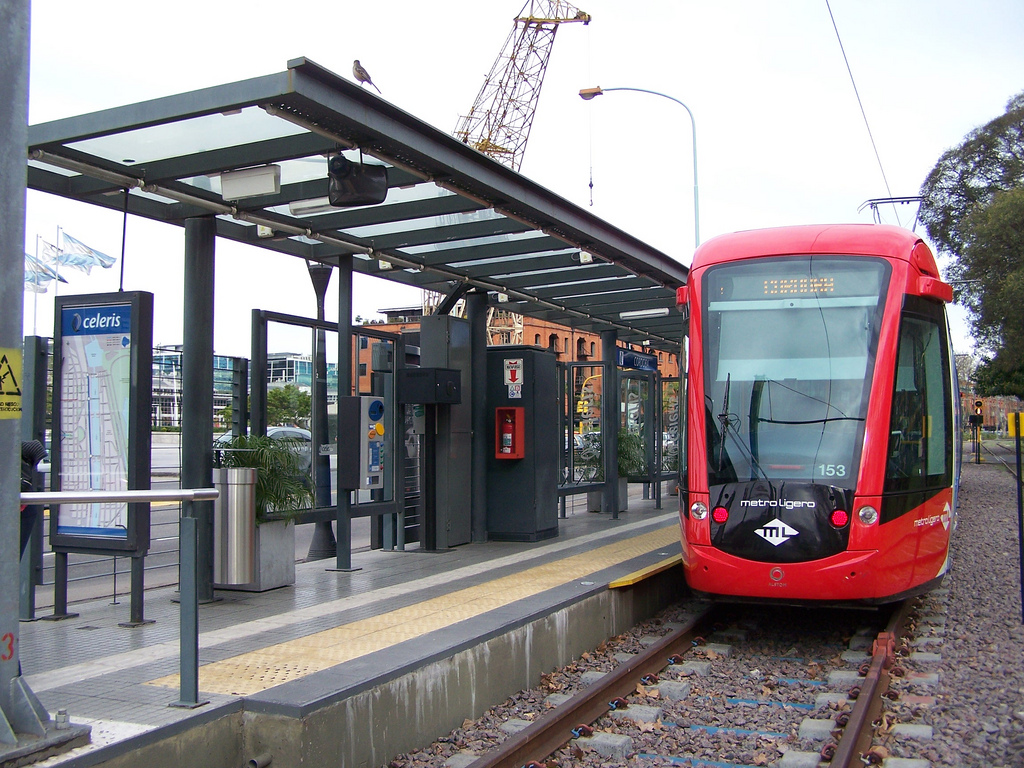 Tram 153, on loan from Madrid, Spain, in service on the Tranvía del Este, in Buenos Aires, Argentina.